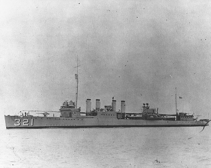 The U.S. Navy destroyer USS Marcus (DD-321), photographed circa 1922-1930.